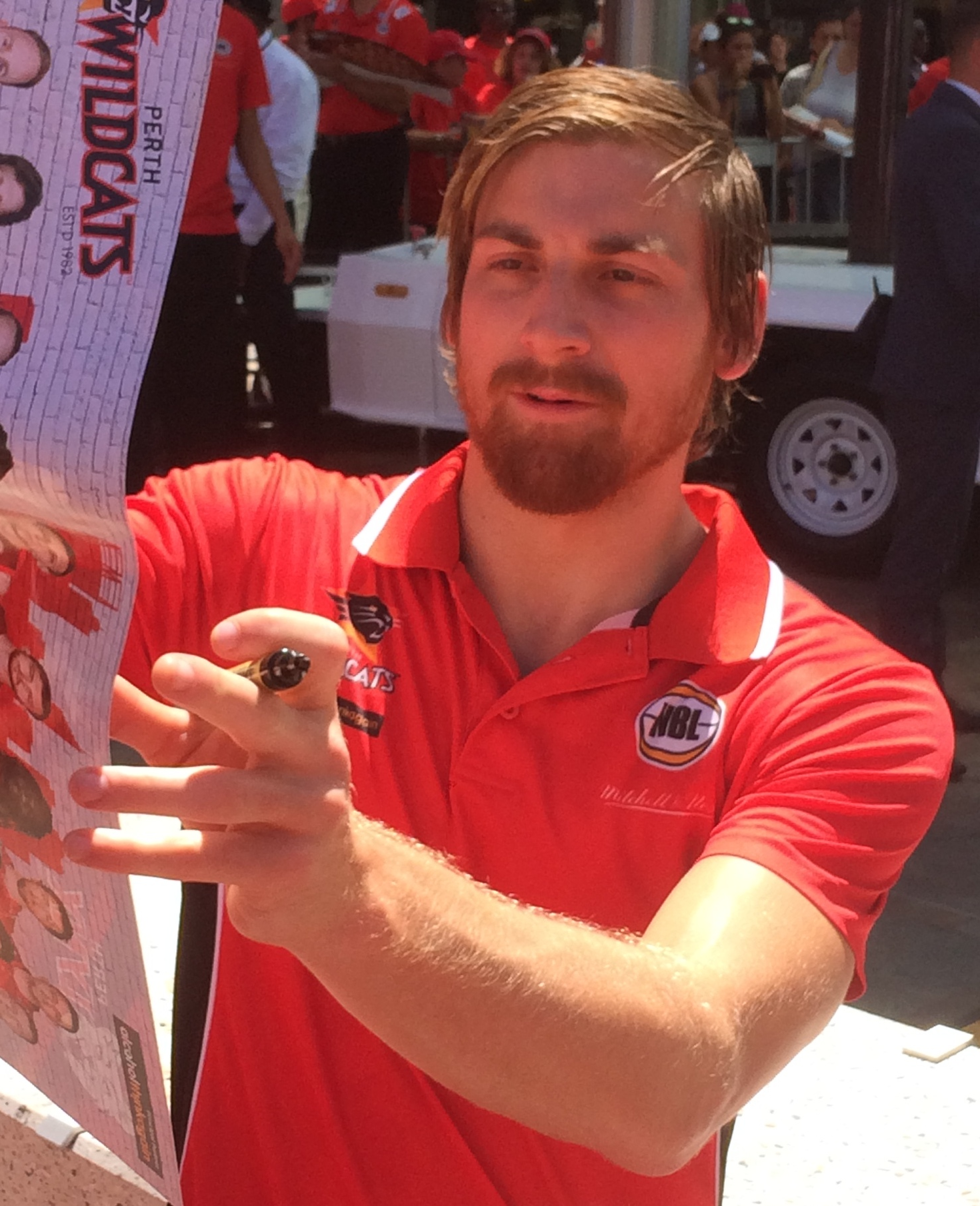 Corban Wroe signing autographs in March 2017